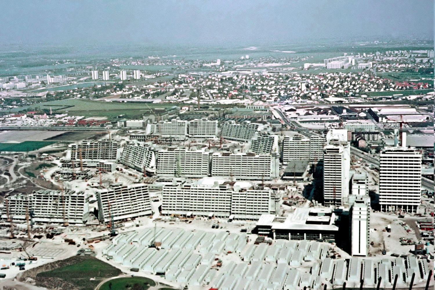 Münchner Olympisches Dorf im Bau vom Fernsehturm gesehen (1971)